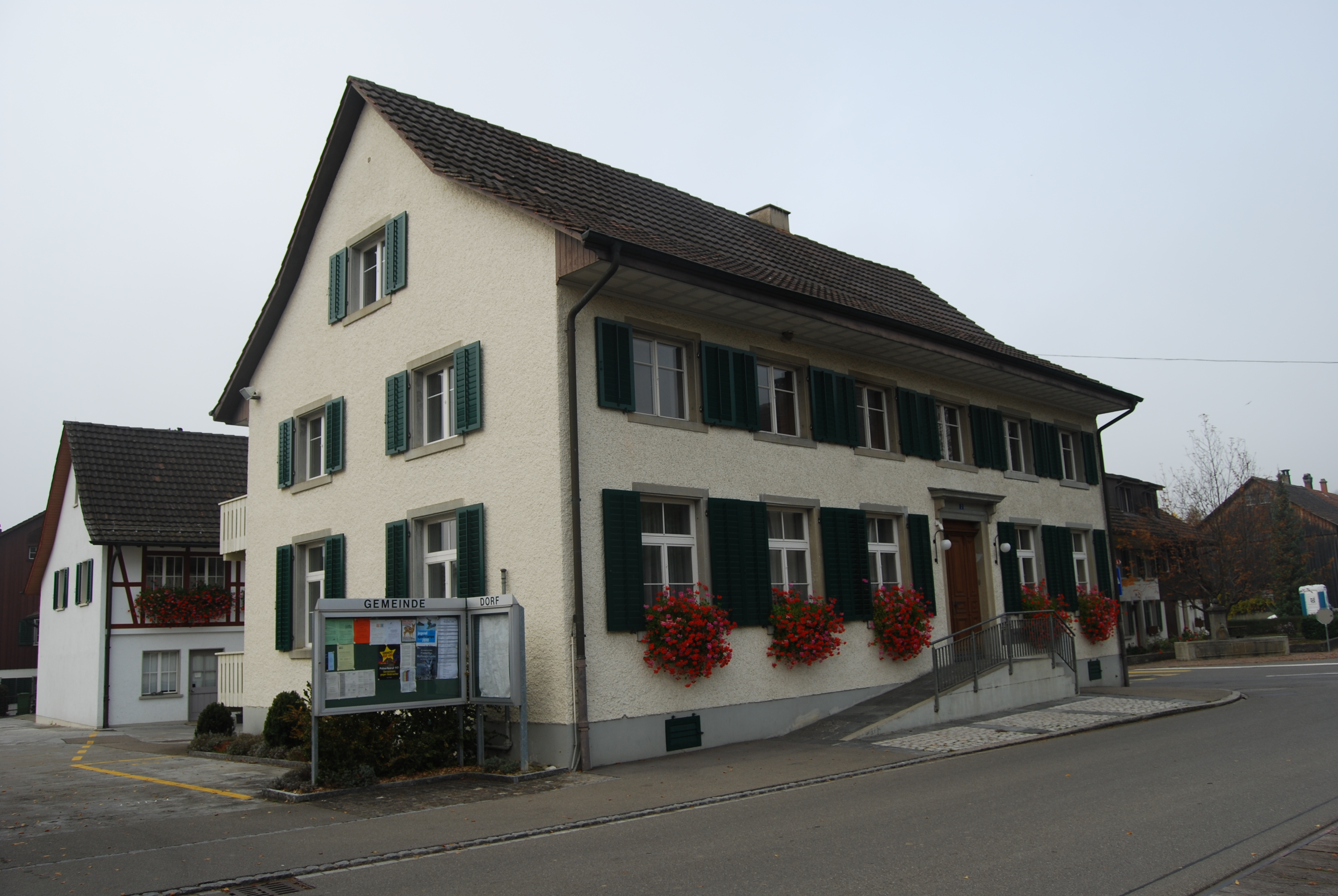 Municipal administration of Dorf, canton of Zürich, SwitzerlandEsperanto: Komunuma domo de Dorf, Kantono Zuriko, Svislando